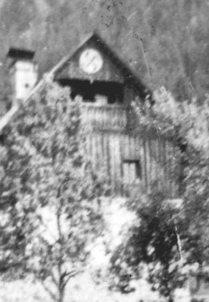 House with painted swastika during the Nazi era (1938-1945) in the Community of Obermillstatt near Millstatt (Millstätter See), district Spittal an der Drau in Carinthia / Austria / EU.